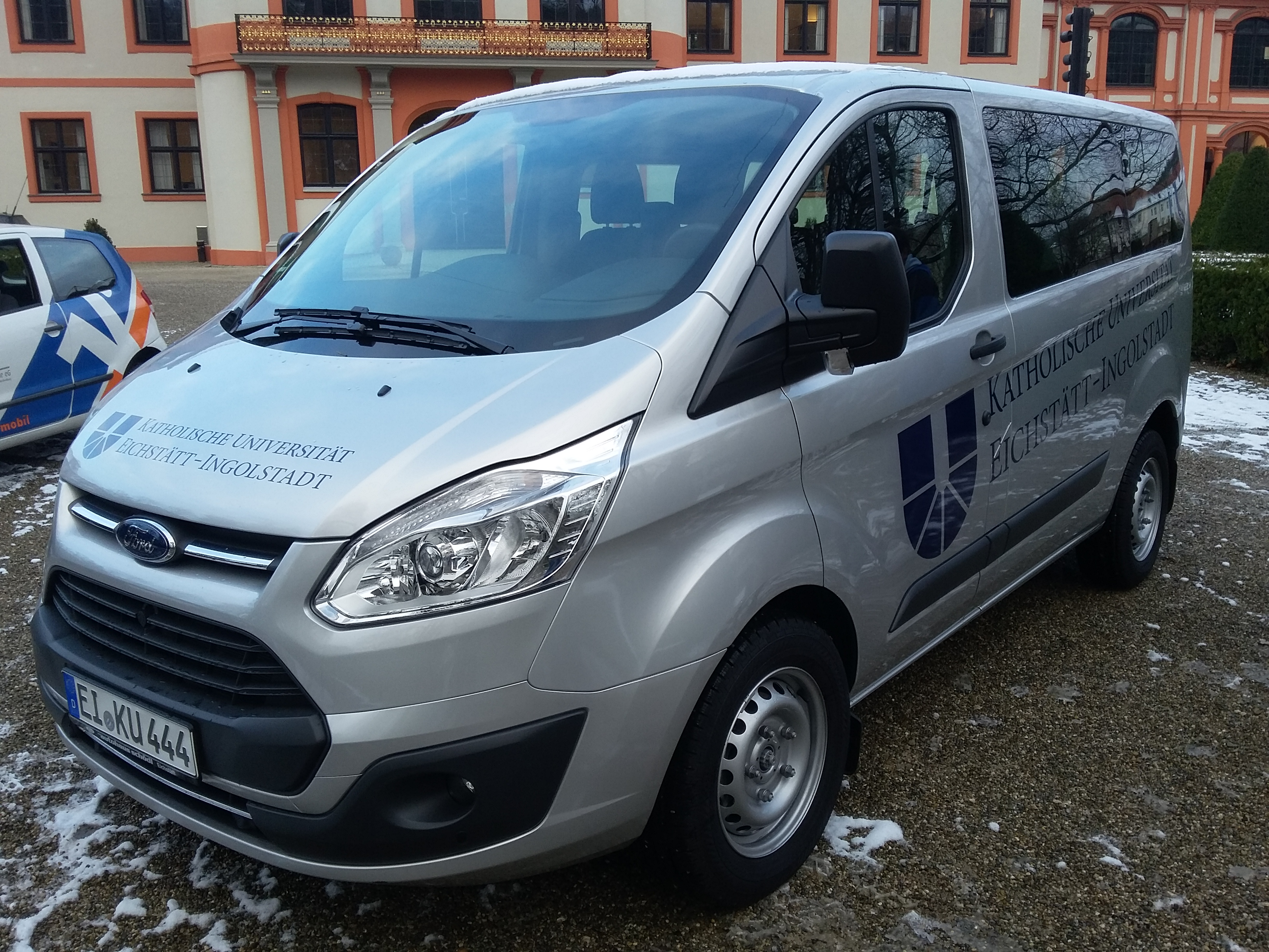 Ford Transit of the motor pool of Katholische Universität Eichstätt-Ingolstadt